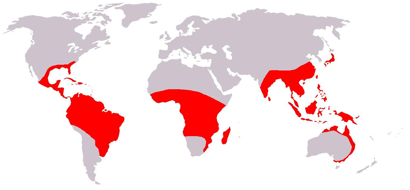 Distribution map of Burmanniaceae Family flora.